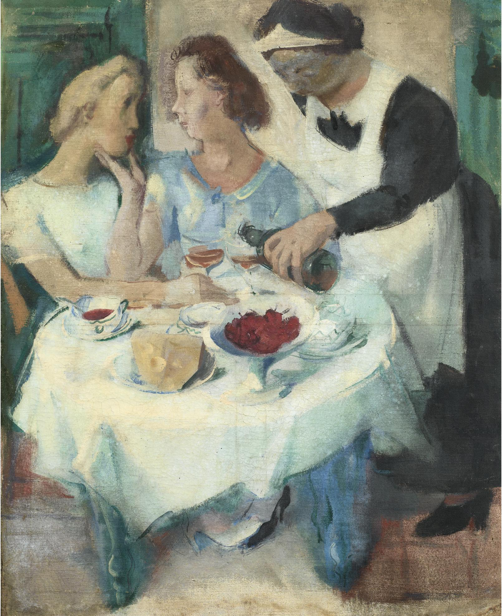 Alexandre Jacovleff. In the Cafe de la Rotonde